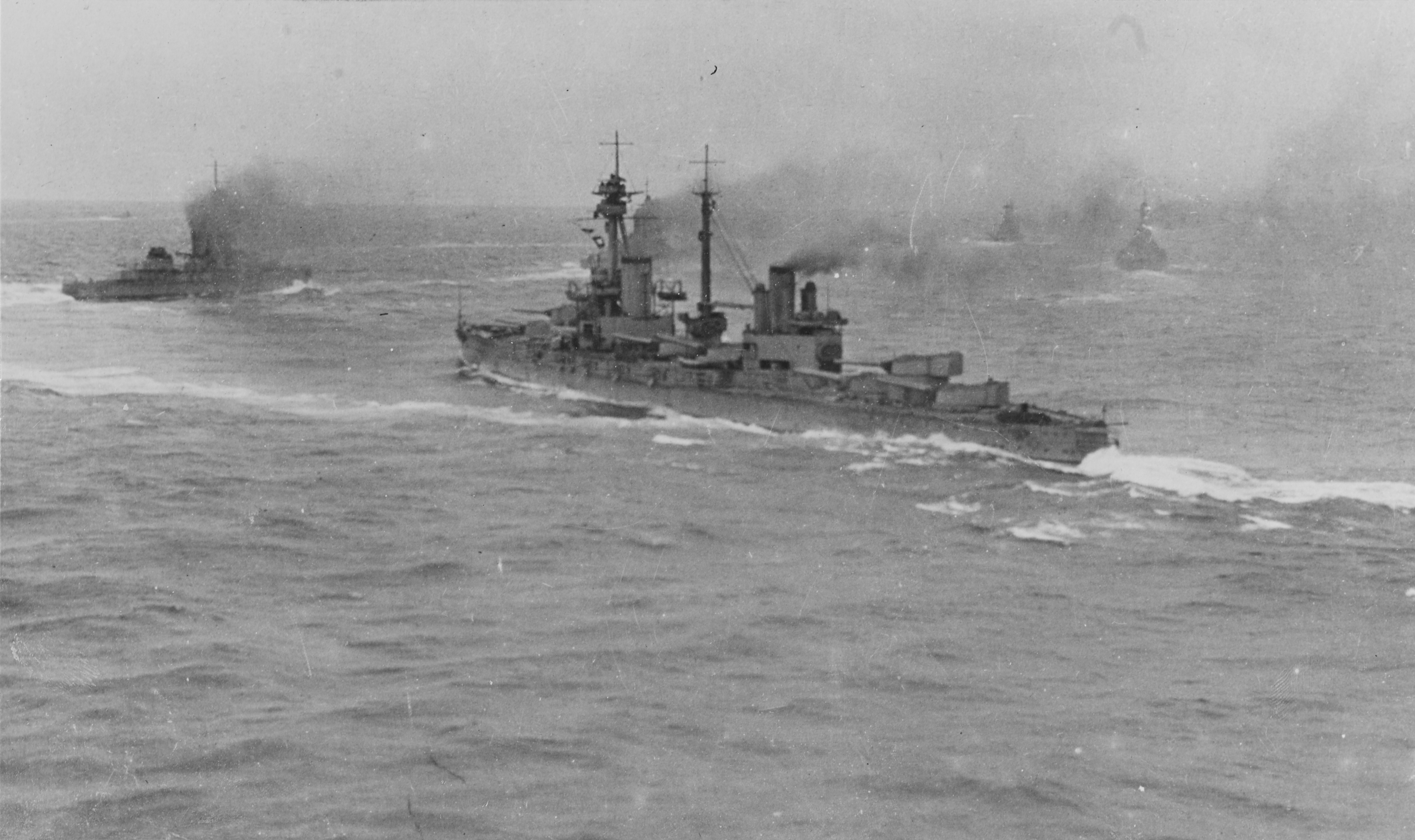 "Operating at sea in 1918, with all fourteen of her twelve-inch guns trained out to port. She is following astern of HMS Erin (at left), which is completing a turn to starboard. Several other battleships are visible in the right-center distance, and at least one destroyer is steaming along the port side of the battle line. Note the obscuring effect of the ships' coal smoke. U.S. Naval History and Heritage Command Photograph."